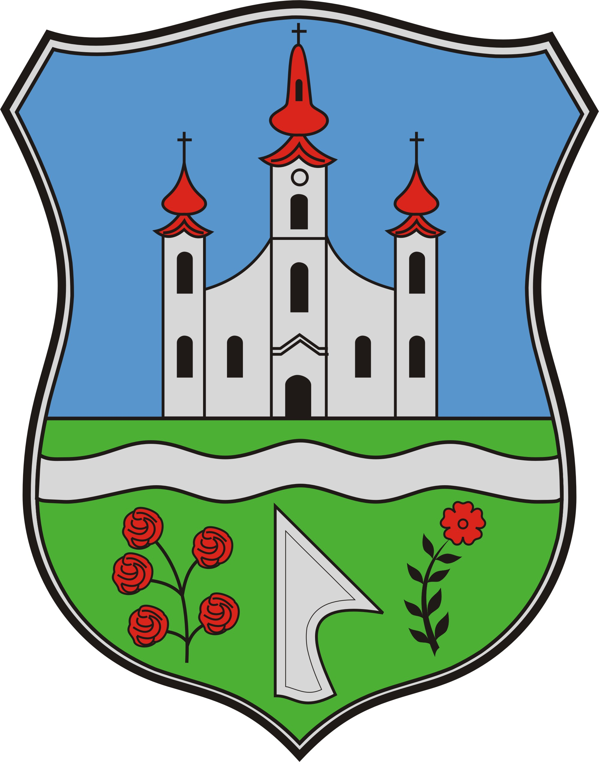 Coat of arms of Szany, Hungary